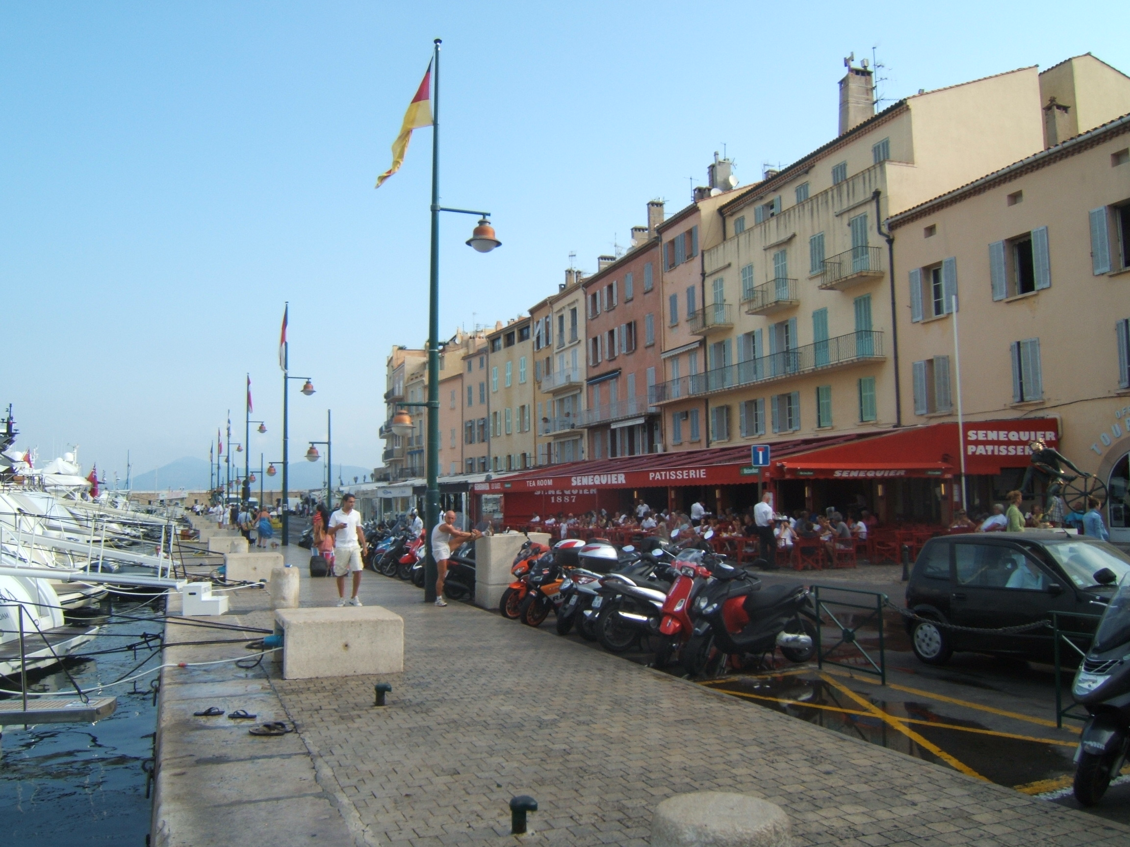 Saint Tropez, port, august 2011